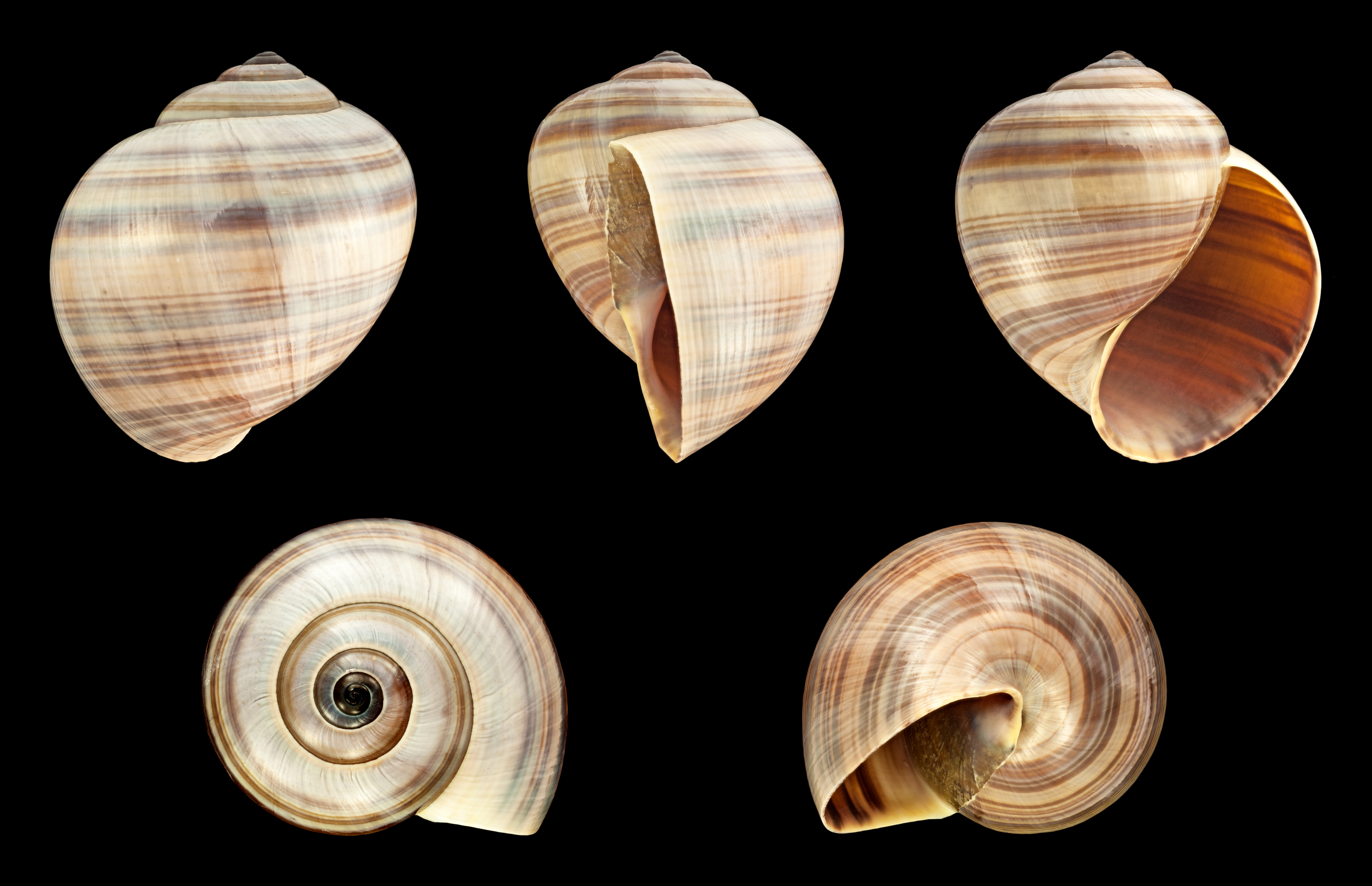 Pila ampullacea (Linné, 1758); Height 6.7 cm; Originating from Thailand. Shell of own collection, therefore not geocoded.